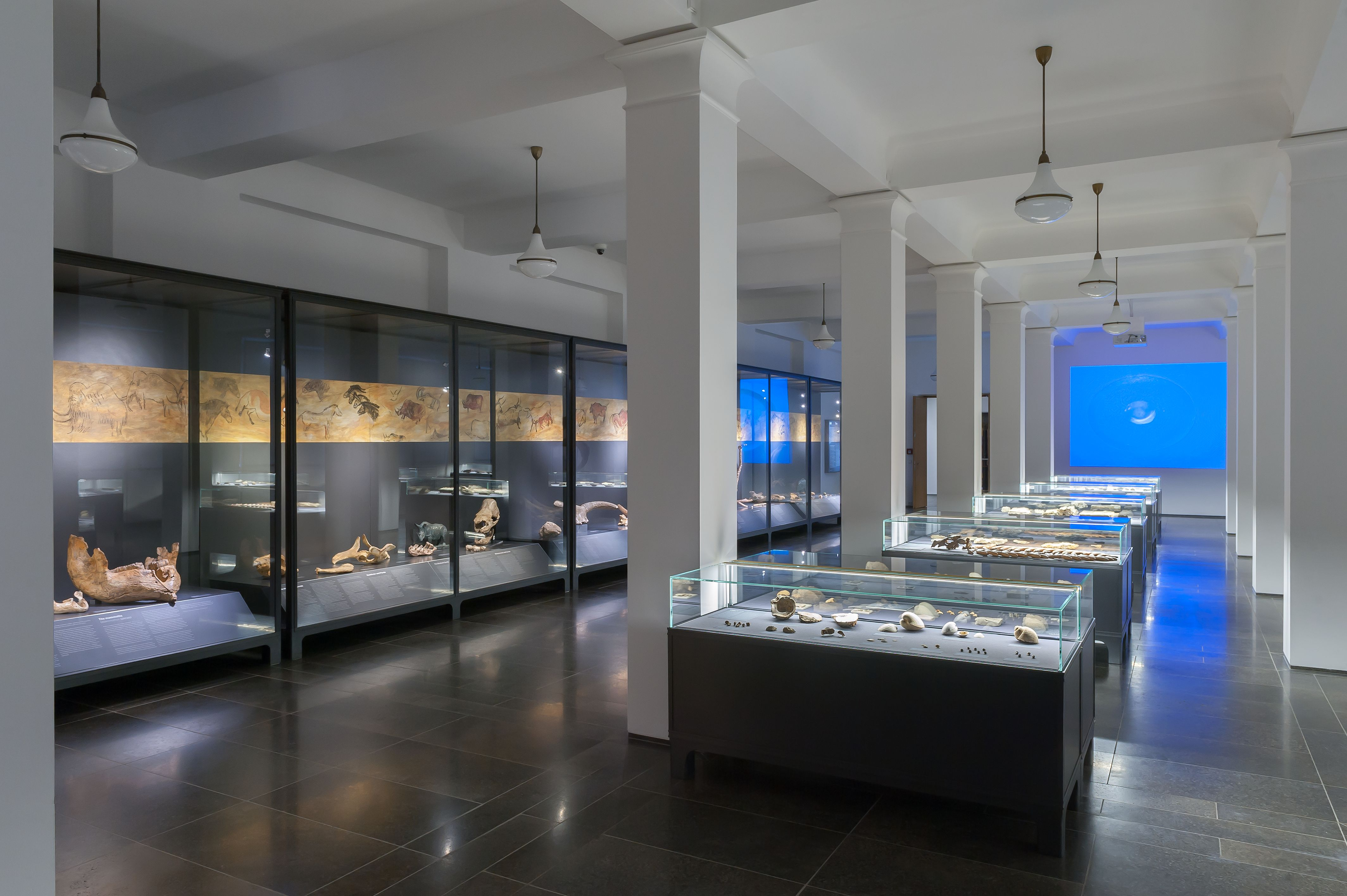 Time– Location: Museum Wiesbaden